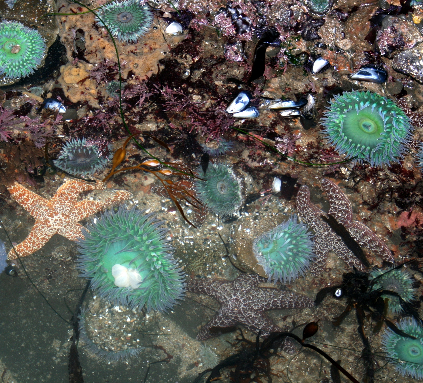 Tidepoosl in Santa Cruz